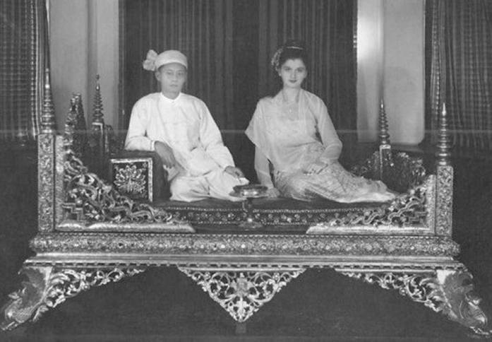 Sao Kya Seng and Mahadevi Sao Nang Thu Sandi. The last Saopha of Hsipaw State.